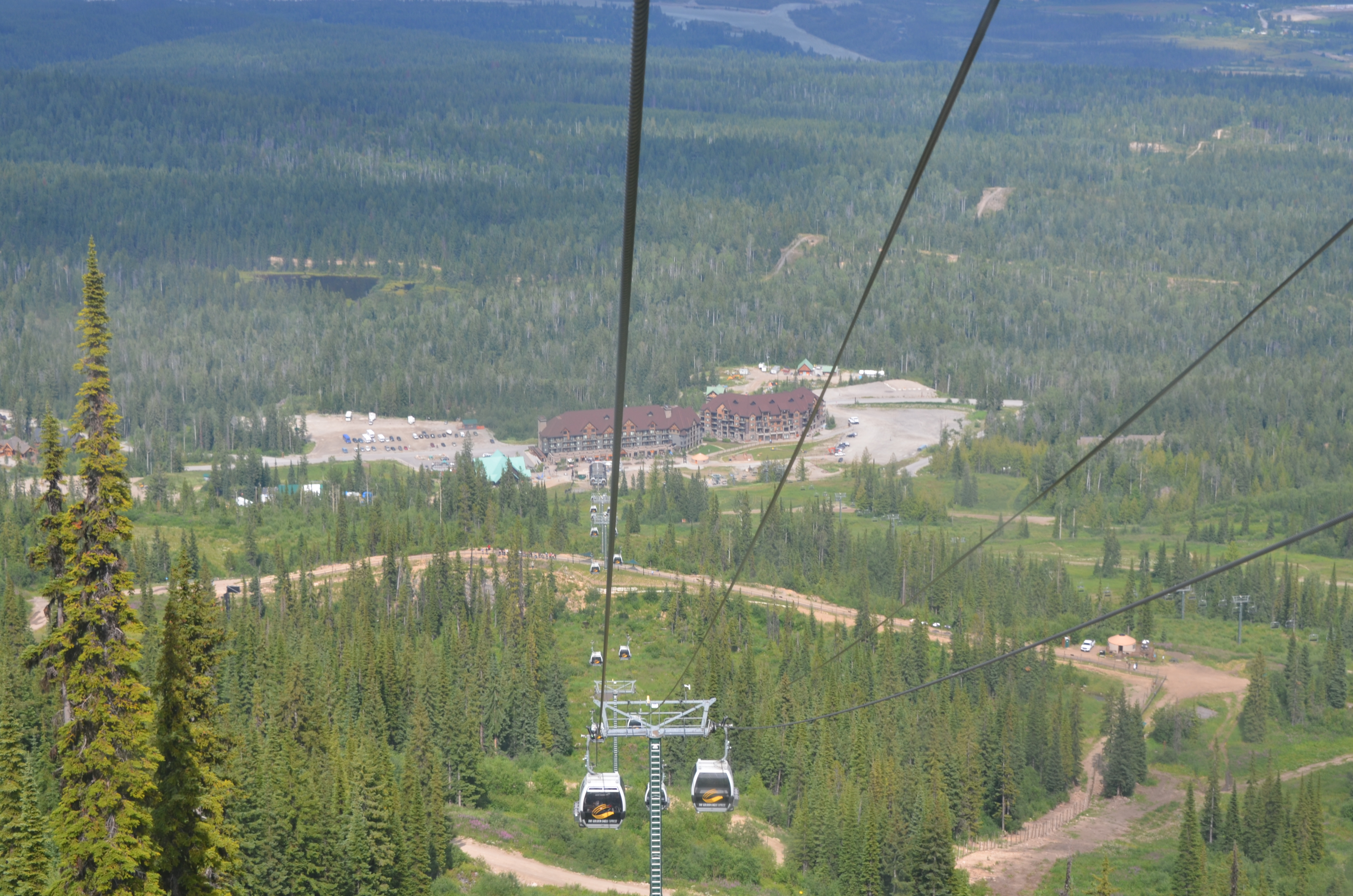 Gondola Ride - Kicking Horse